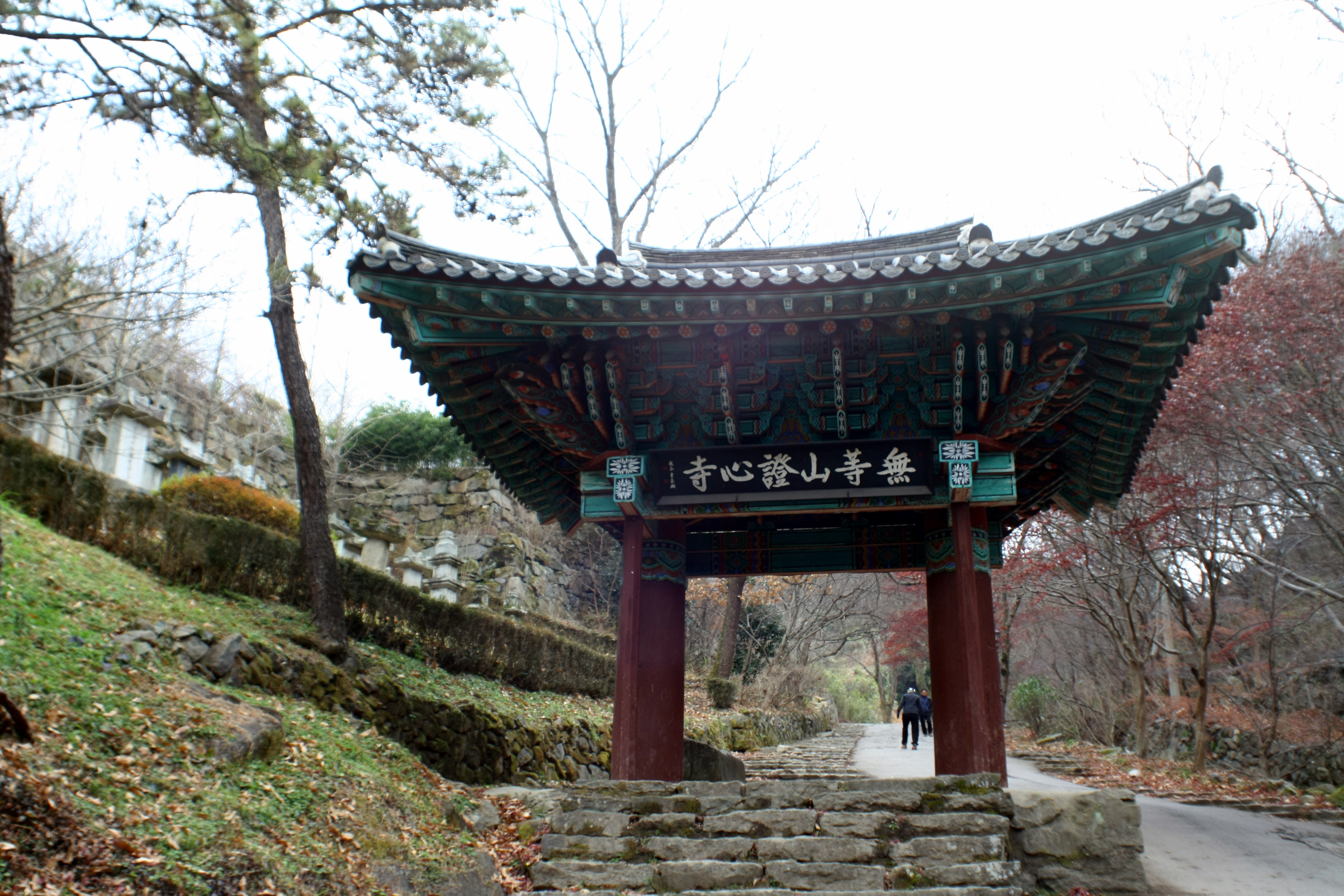 Jeungsimsa